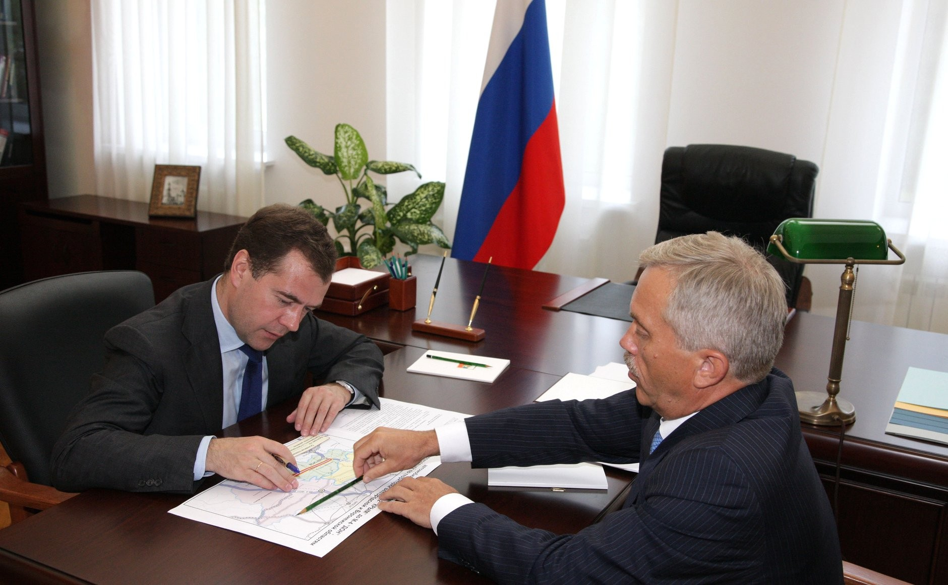 Yevgeny Stepanovich Savchenko (born 1950) is the governor of Belgorod Oblast in Southern Russia. He has been in office since 1993, he is a member of the Agrarian Party.